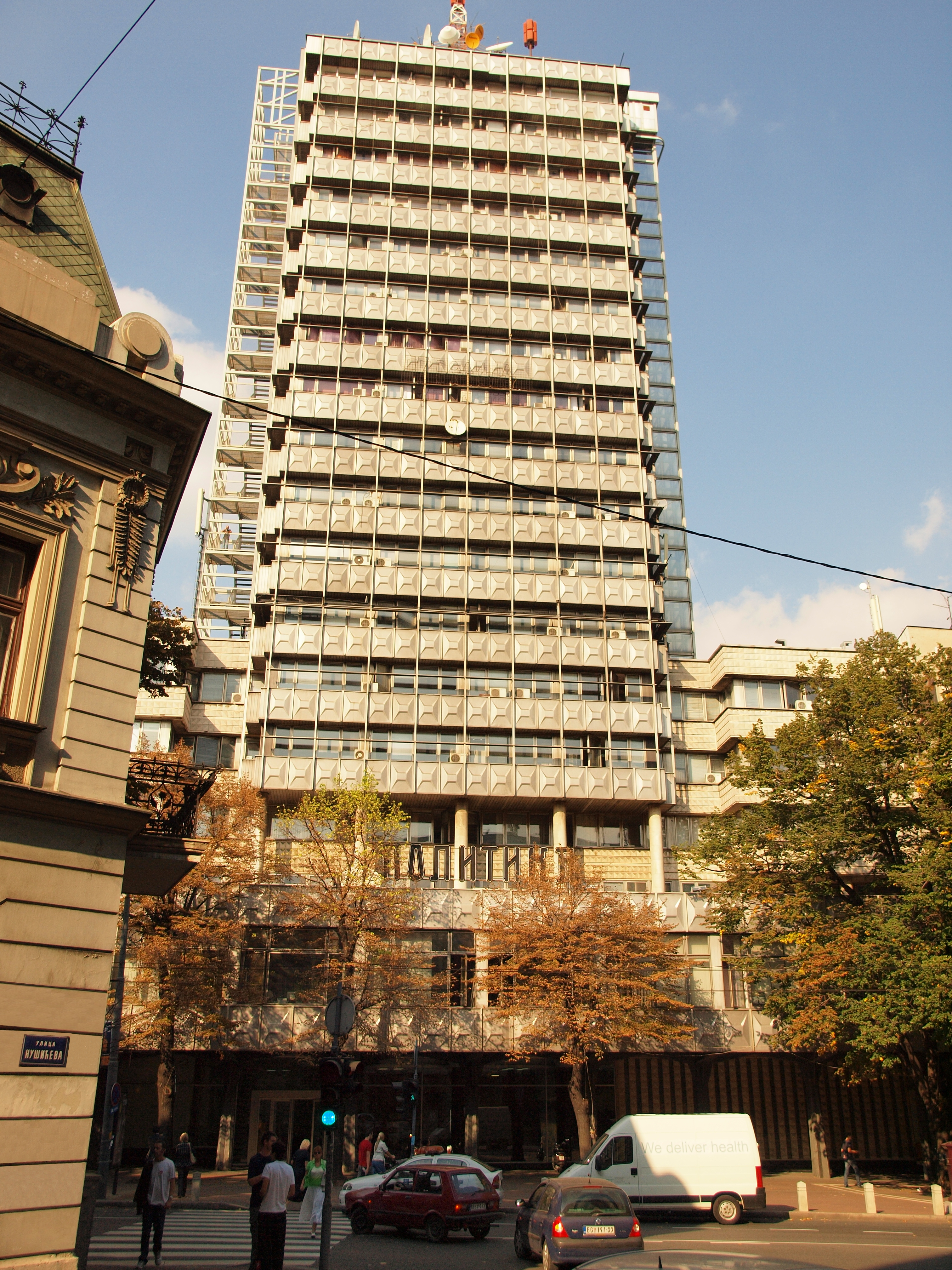 politika belgrade headquarters